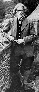 Edited at